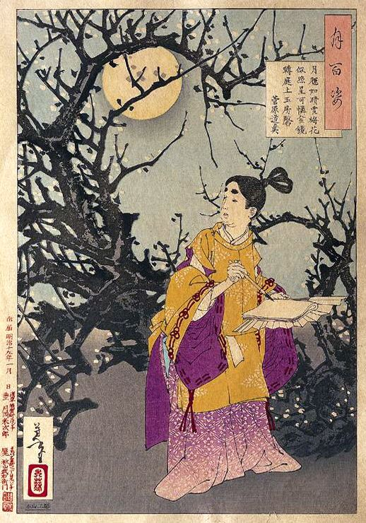 Michizane composes a poem by moonlight